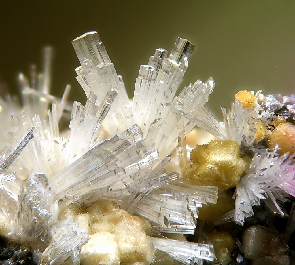 Valentinite Locality: Djebel Nador, Constantine Province, Algeria (Locality at ) Picture width 5 mm. Collection and photograph Christian Rewitzer